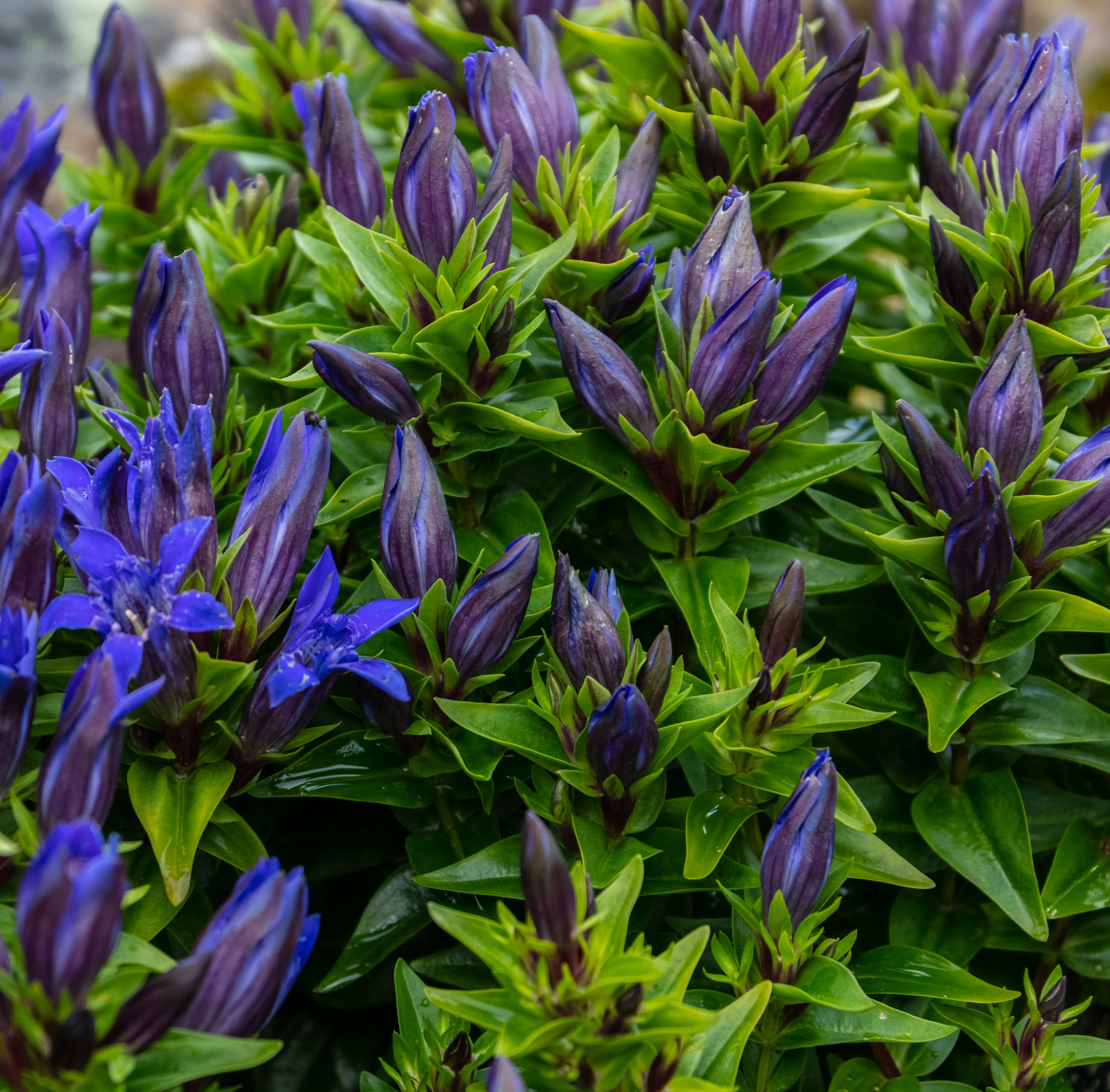 Gentiana sino-ornata, Arctic-Alpine Botanic Garden, Tromsø, Norway